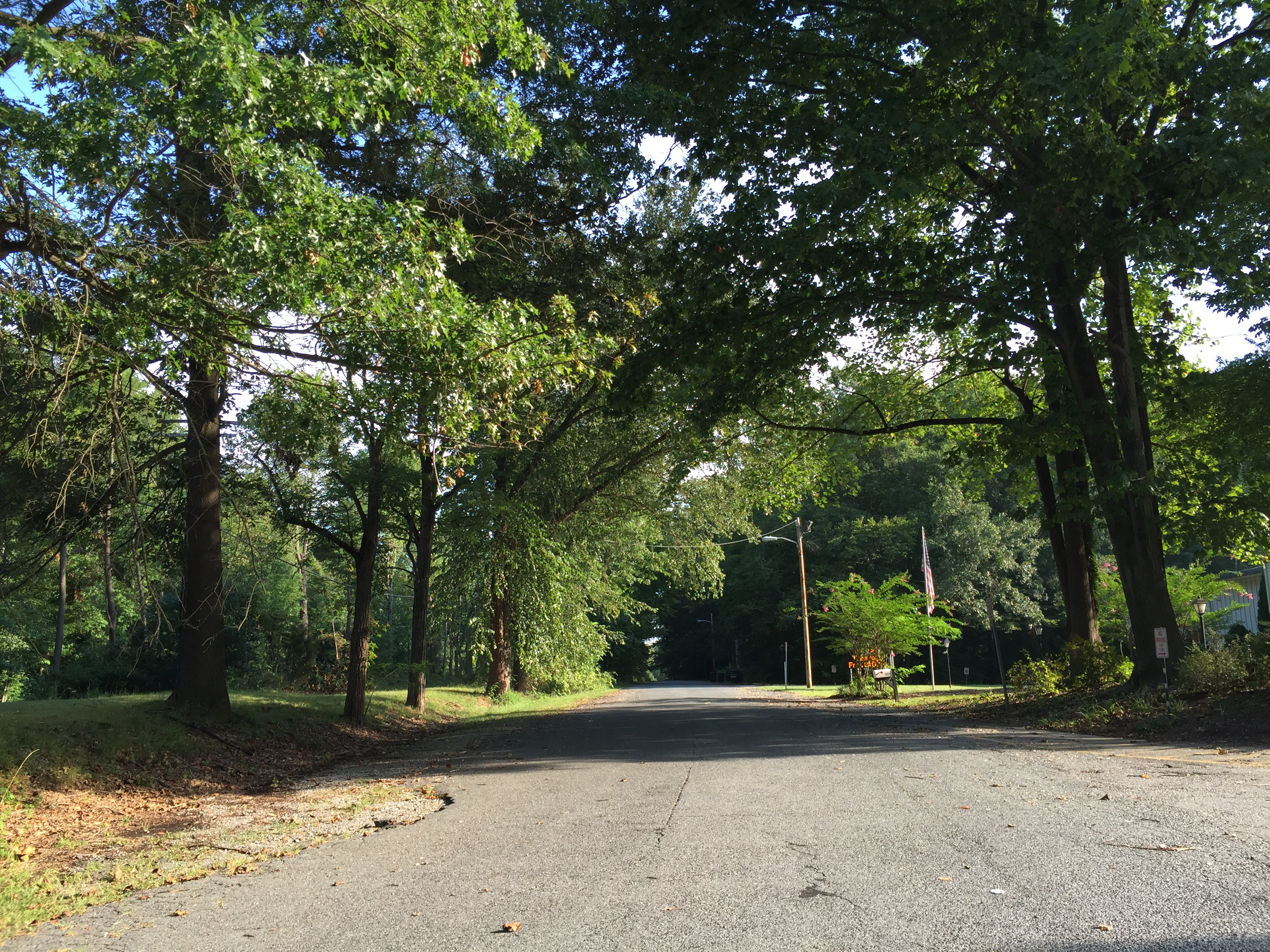 View north along Maryland State Route 976 (Columbian Way) at Maryland State Route 3 (Crain Highway) just east of Bowie in Prince Georges County, Maryland